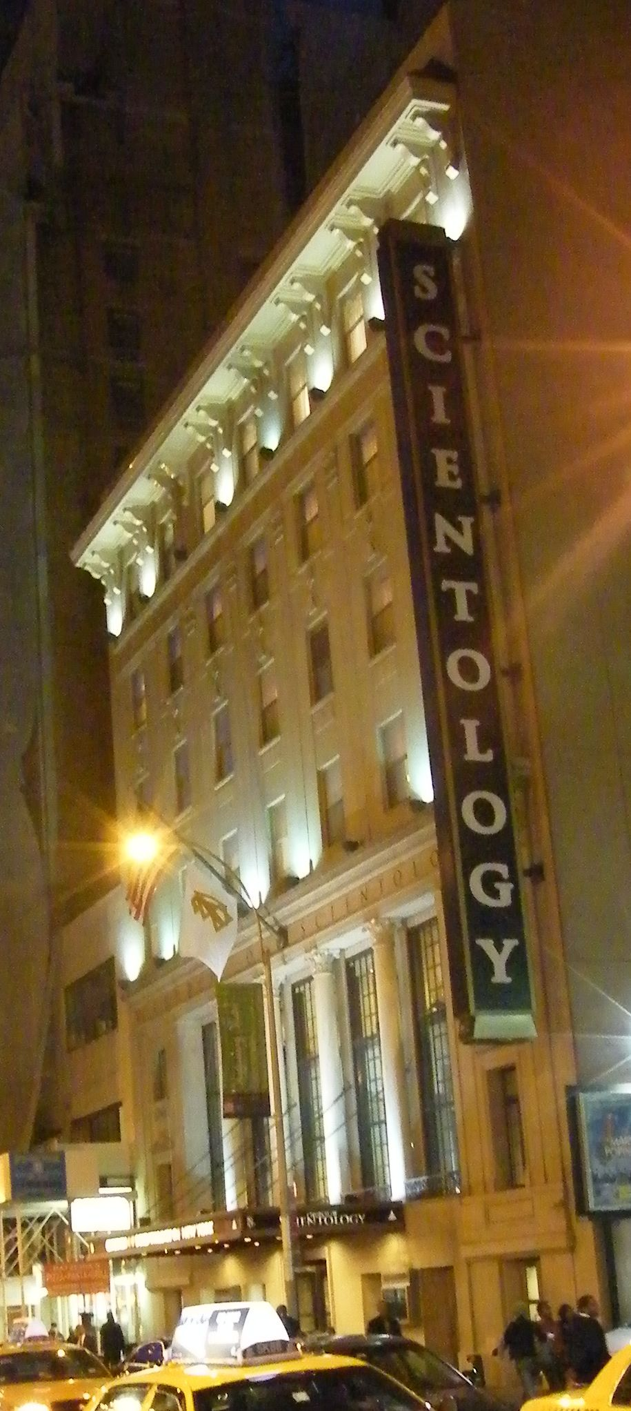 Scientology building in New York City.